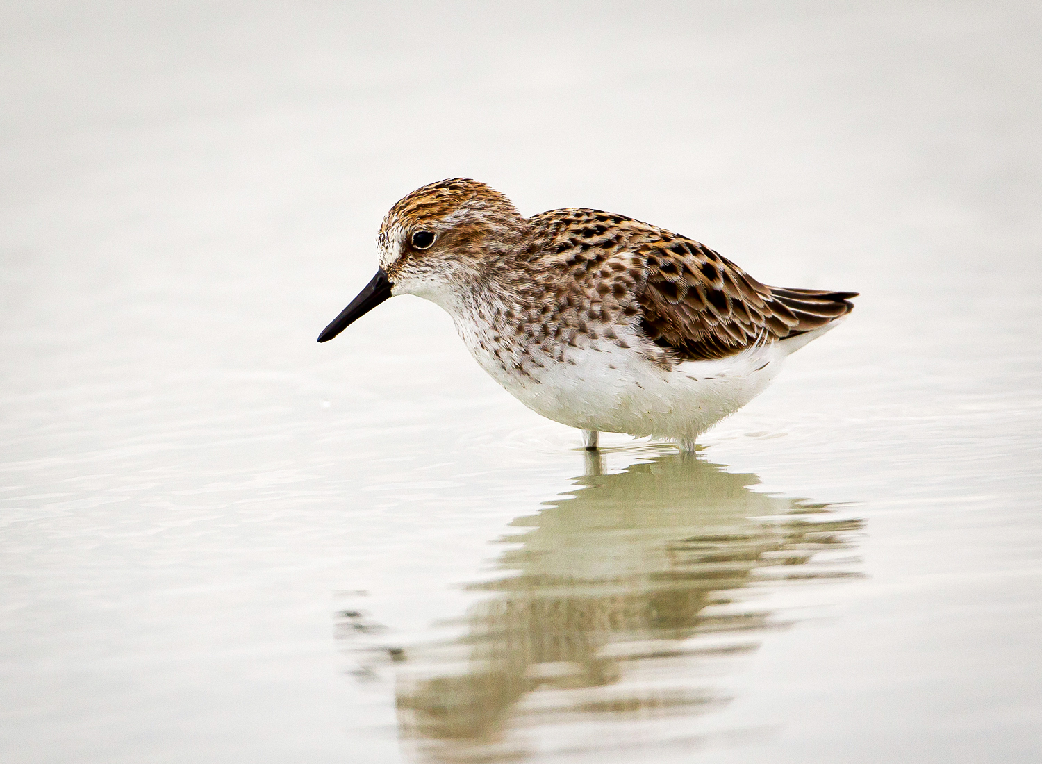 Semipalmated Sandpiper (Calidris pusilla) feeding in the shallow alkaline waters of Chaplin Lake in southern Saskatchewan on the Trans-Canada Highway between Moose Jaw and Swift Current, Saskatchewan, Canada. Prey is abundant in the shallow waters and thousands of shorebirds annually stage there in the spring to build body reserves for their northward migration and to a lesser extent in the fall migration period. Over 30 species of shorebirds have been observed on the lake complex and most of the resident prairie shorebird species nest on or near the lake. Access is very limited but there is a local tourism facility which focuses on the lake and its importance to shorebirds. 19 May, 2013. Slide # GWB_20130519_6761.CR2 Use of this image on websites, blogs or other media without explicit permission is not permitted. © Gerard W. Beyersbergen - all rights reserved.